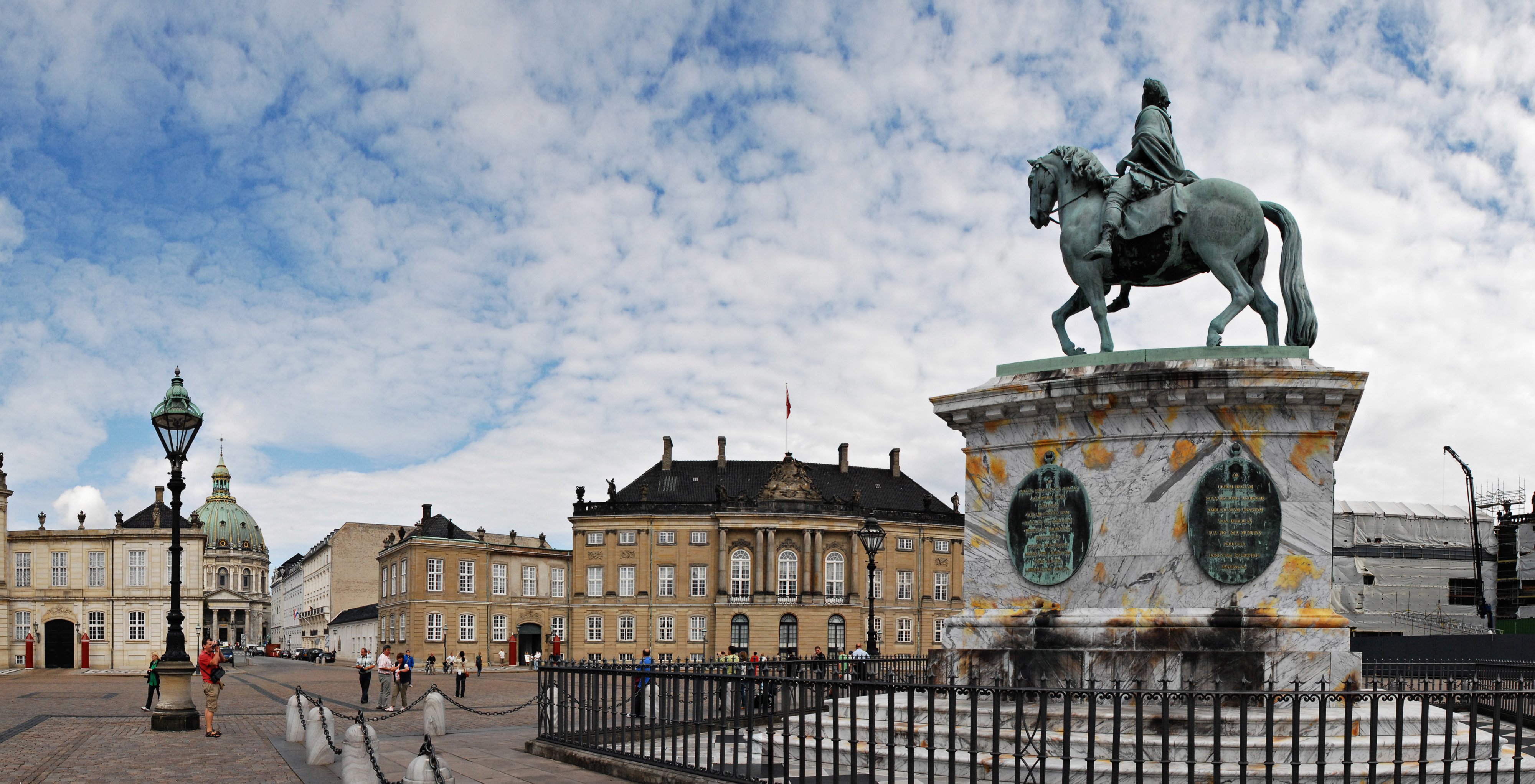 Equestrian statue of King Frederick V, against background of Christian VII's Palace, Amalienborg, Copenhagen, Denmark, Northern Europe.